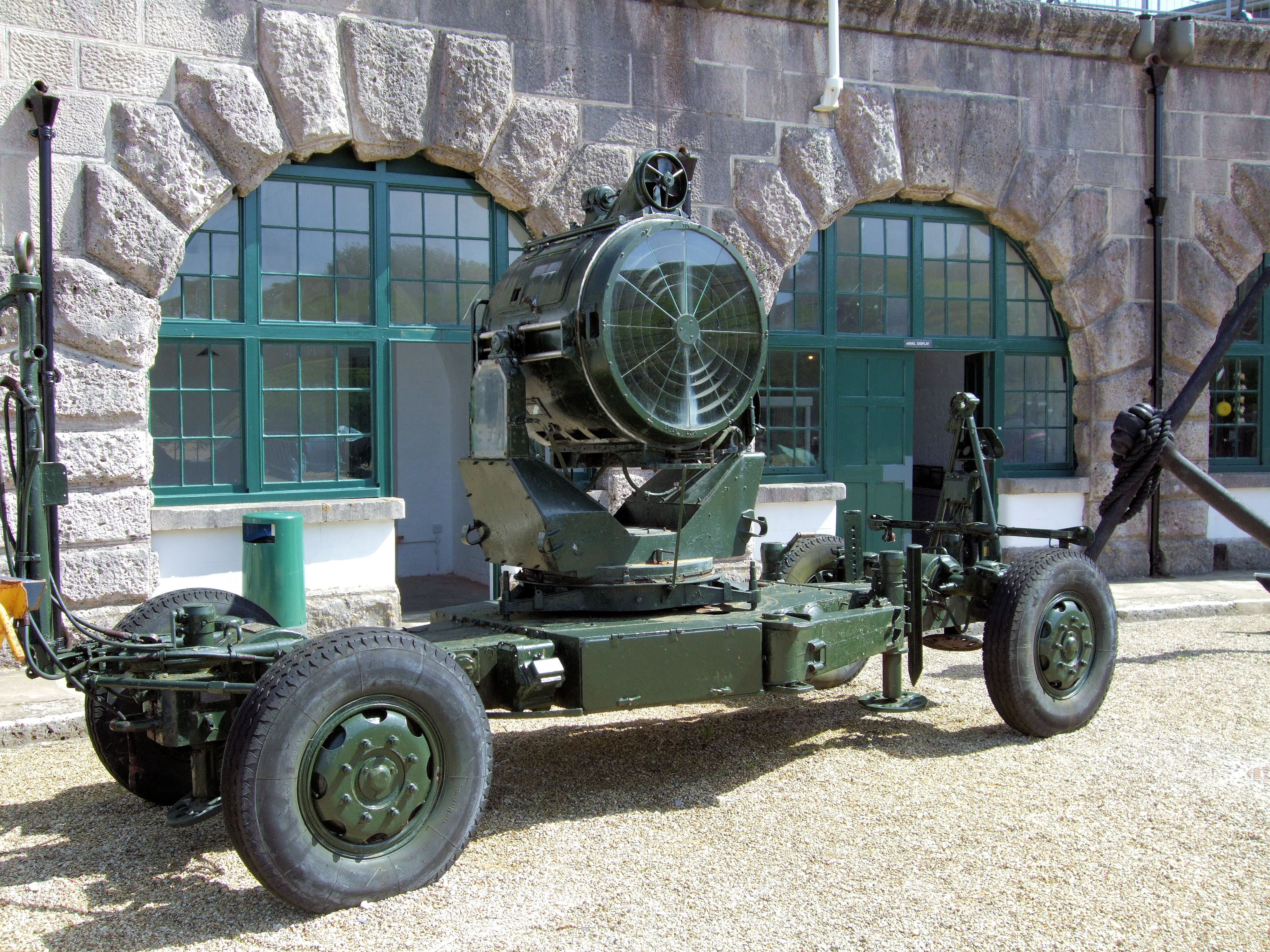 Searchlight mounted on a trailer, at Nothe Fort, Weymouth UK. This is the 90 cm model, the smaller of the two WWII-era British searchlight designs. The object on top that looks like a smaller lamp is a fan that cools the interior.